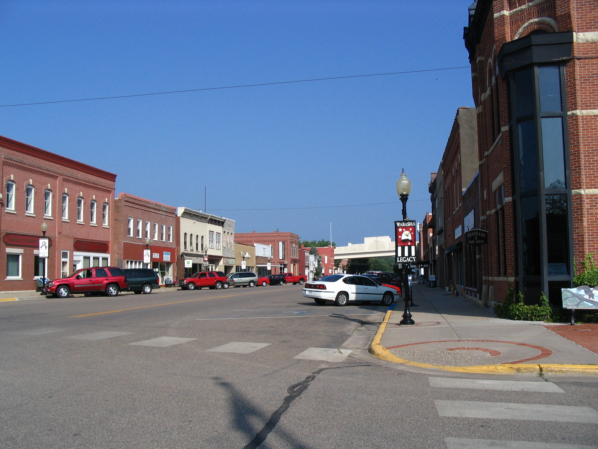 Category:Images of Minnesota